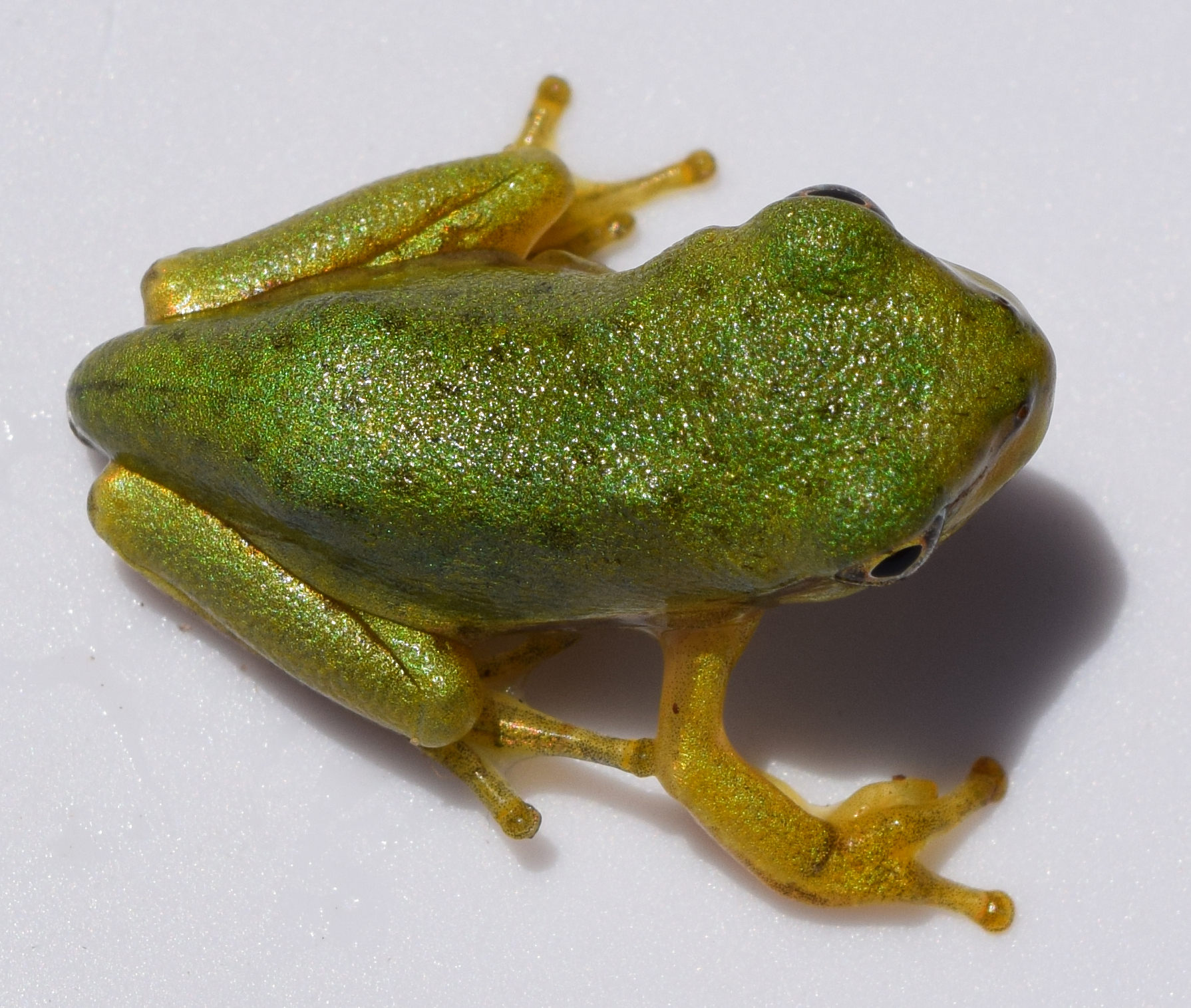 A Hyla gratiosa (barking treefrog) metamorph at the University of Mississippi Field Station.